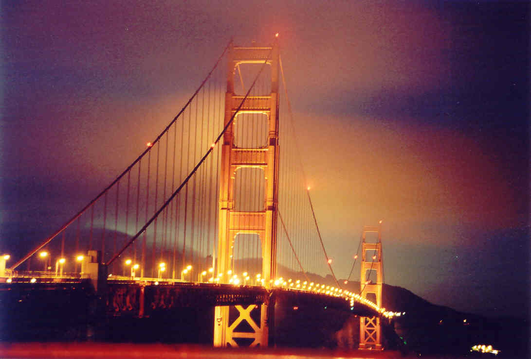 Golden Gate Bridge (San Francisco - USA)